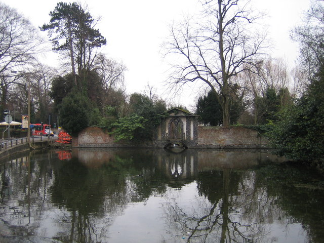 Ewell: The Pond, Bourne Hall. Viewed looking southwards from Chessington Road, the Pond is one of the sources of the Hogsmill River.